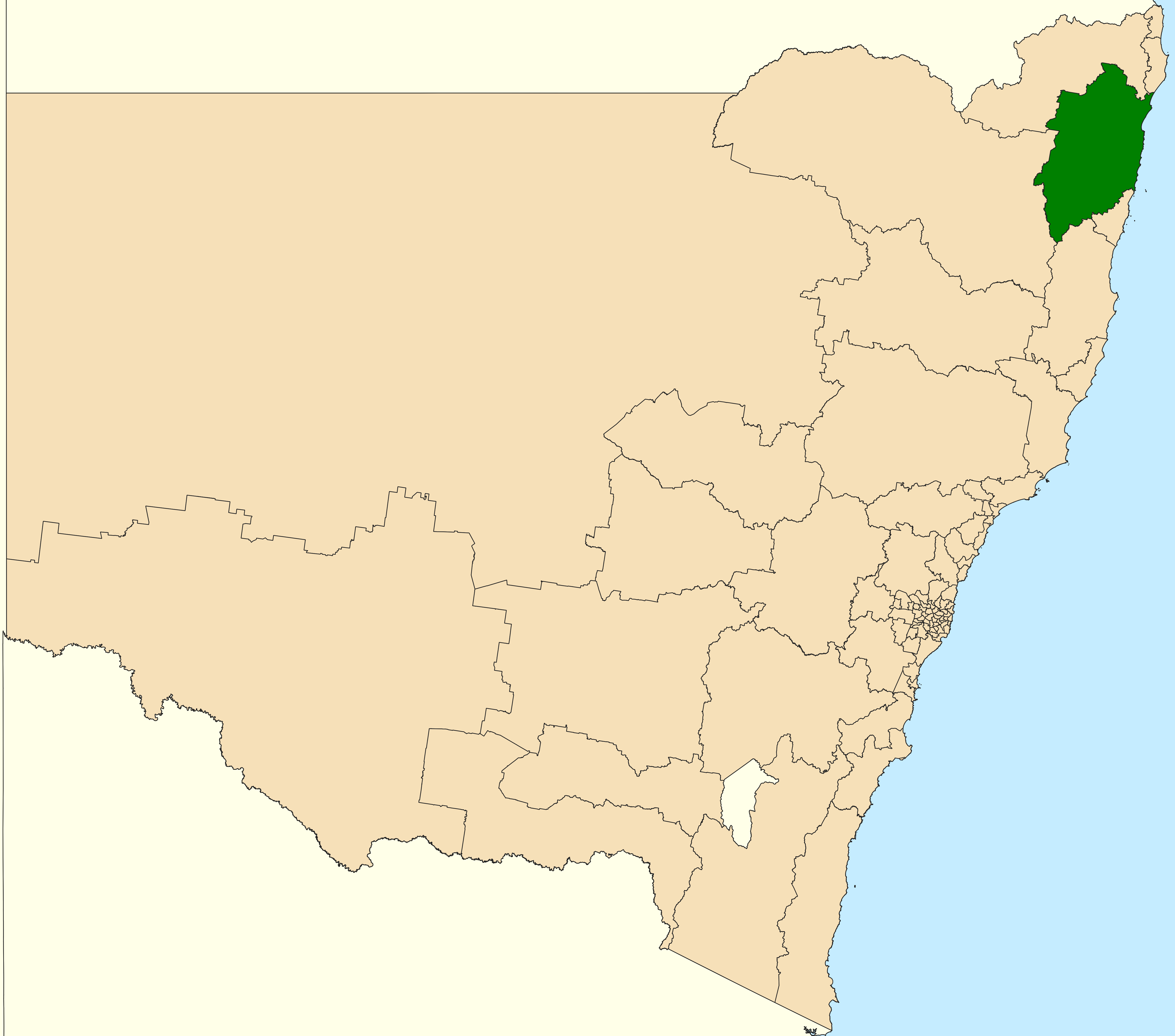 Location of the state electoral district of Clarence (dark green) in New South Wales as of the 2019 New South Wales state election. Incorporates or developed using Administrative Boundaries ©PSMA Australia Limited licensed by the Commonwealth of Australia under Creative Commons Attribution 4.0 International licence (CC BY 4.0).